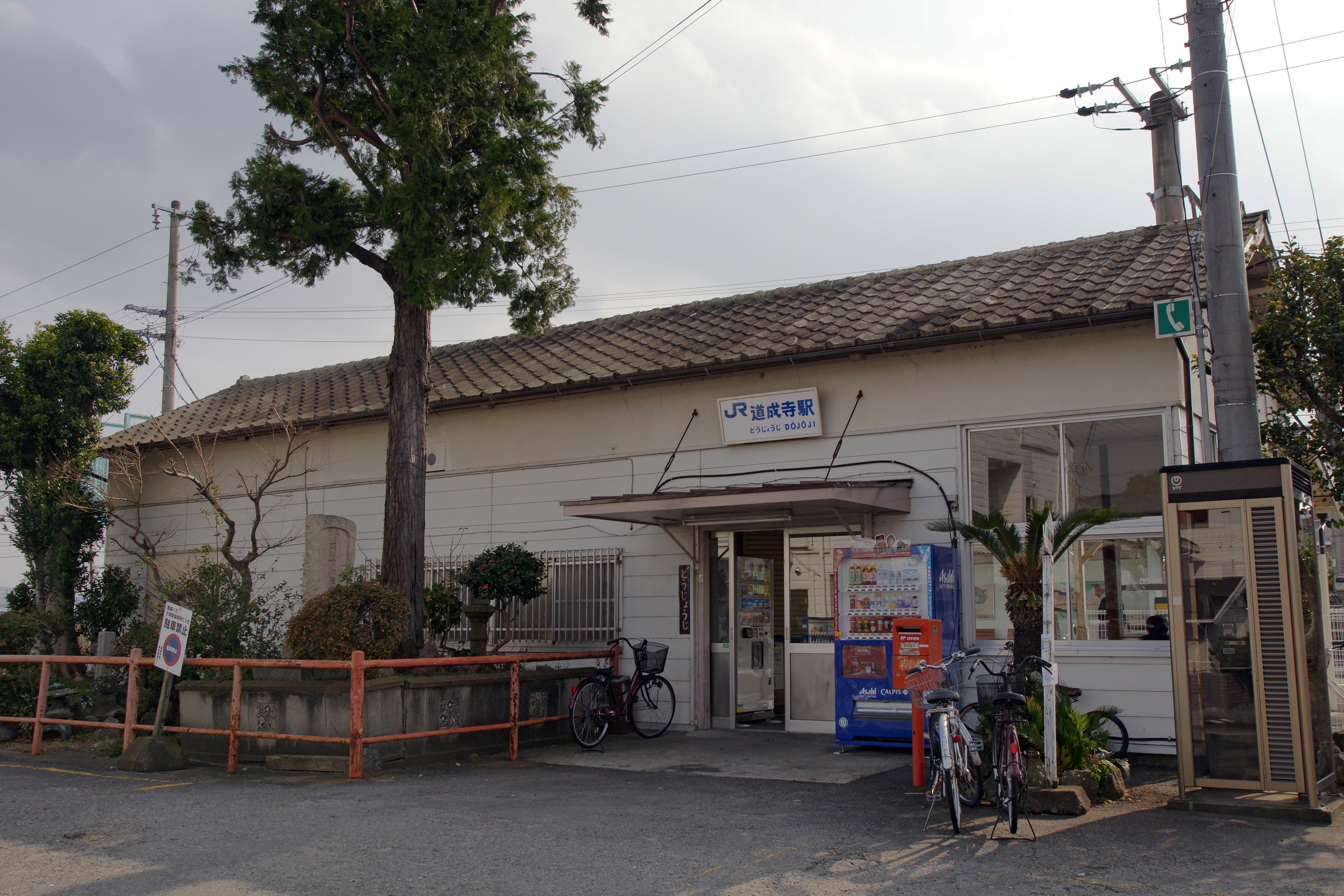 Dojoji Station, Gobo, Wakayama prefecture, Japan